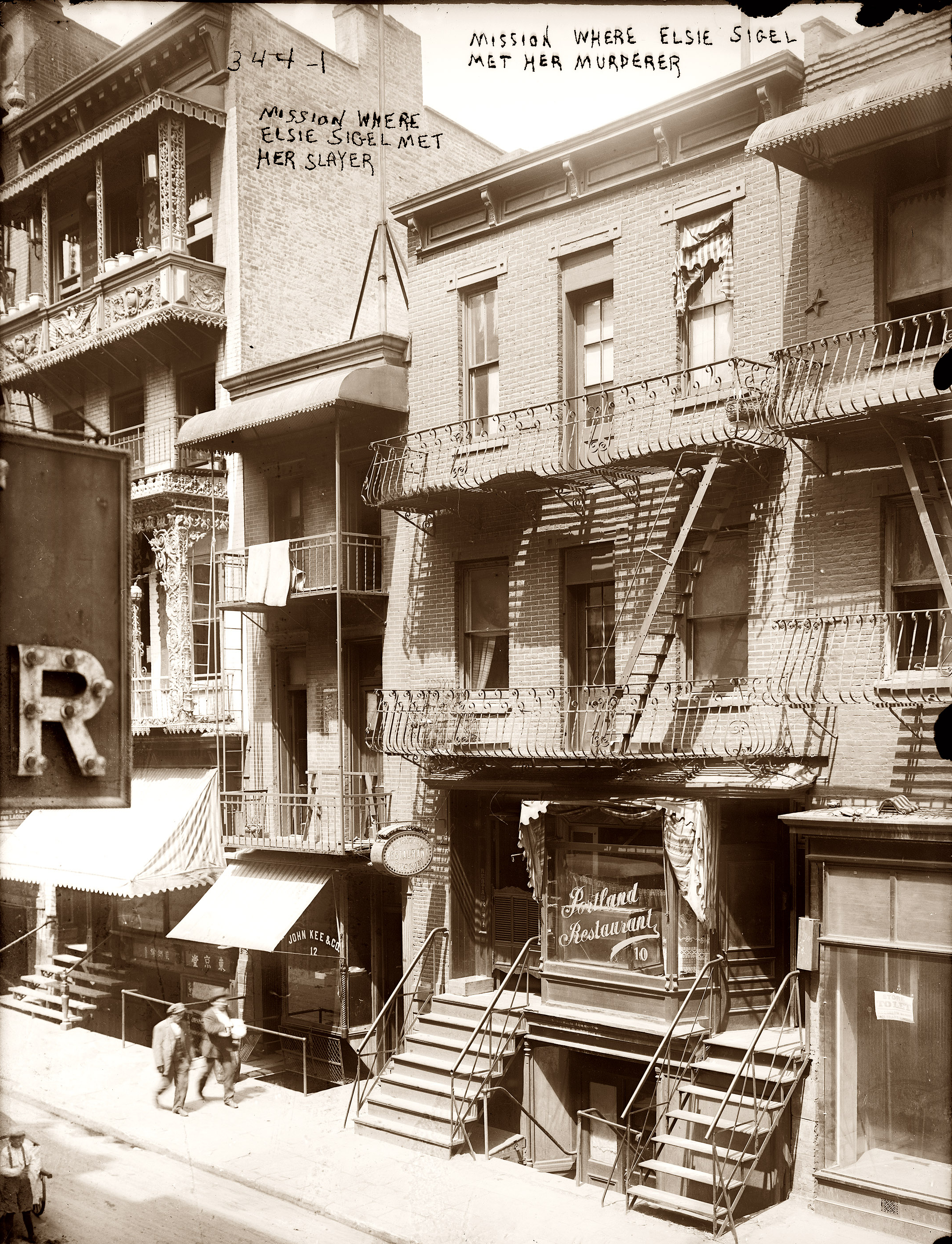 Mission house where Elsie Sigel met her apparent killer. Filename is in error; her body was found in his home at782 8th Avenue, New York City (Hell's Kitchen neighborhood). This is 10 Mott St as Wikipedia's entry for Elsie Siegel notes.